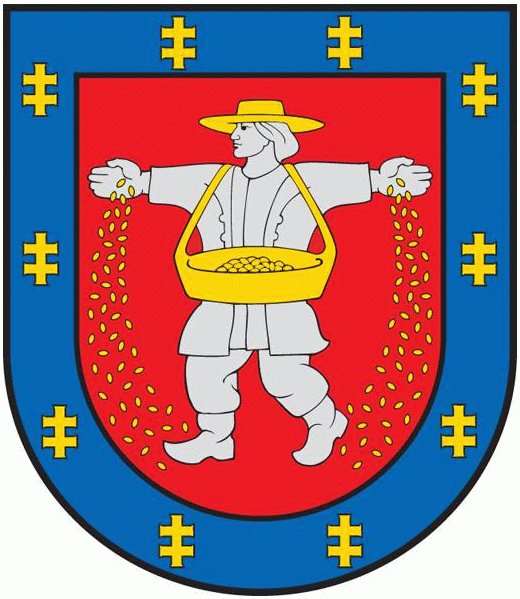 Coat of arms of Marijampolė County, Lithuania